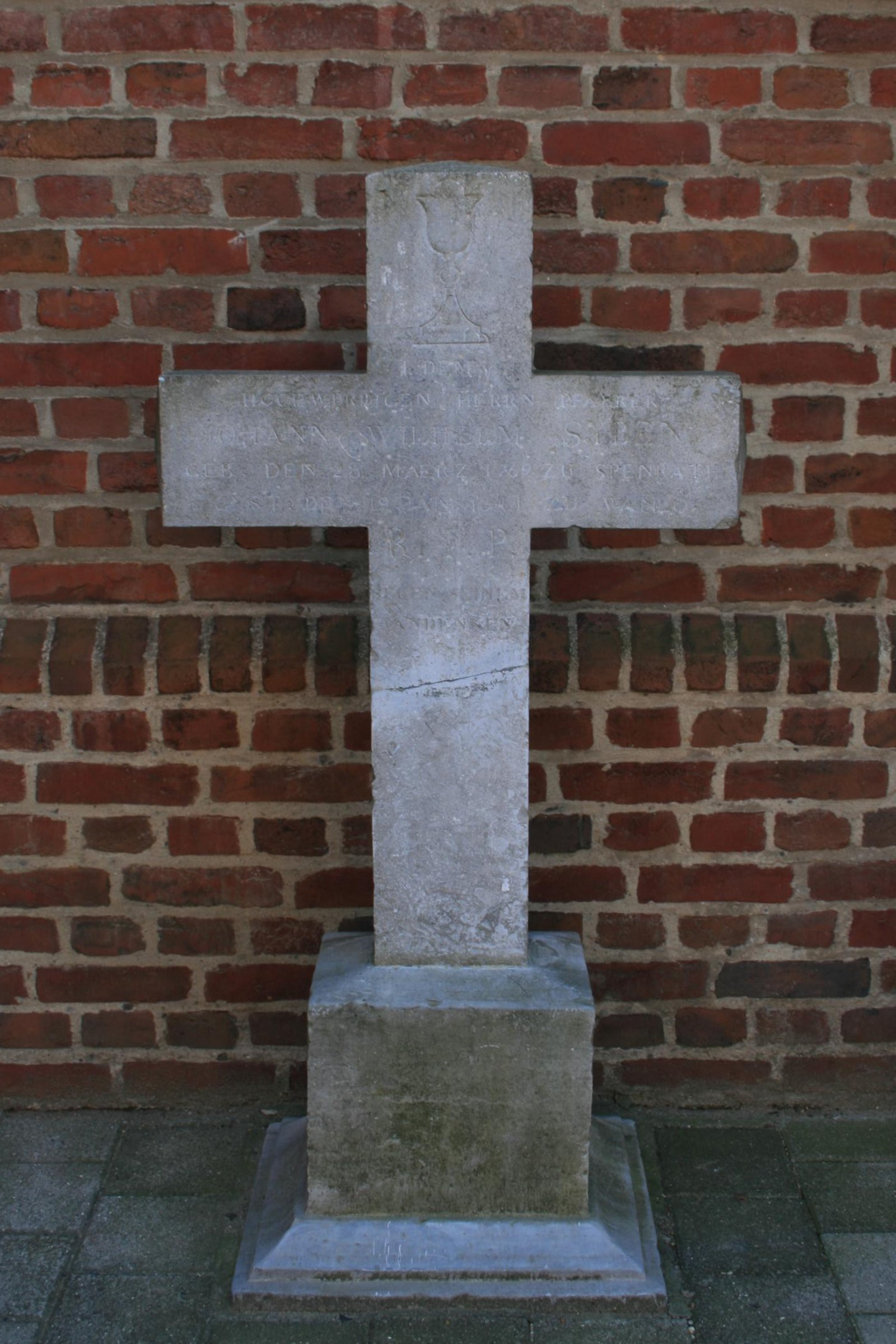 Cultural heritage monument No. A 036 in Mönchengladbach